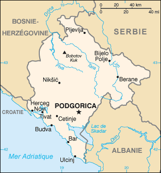 Map in French of Montenegro